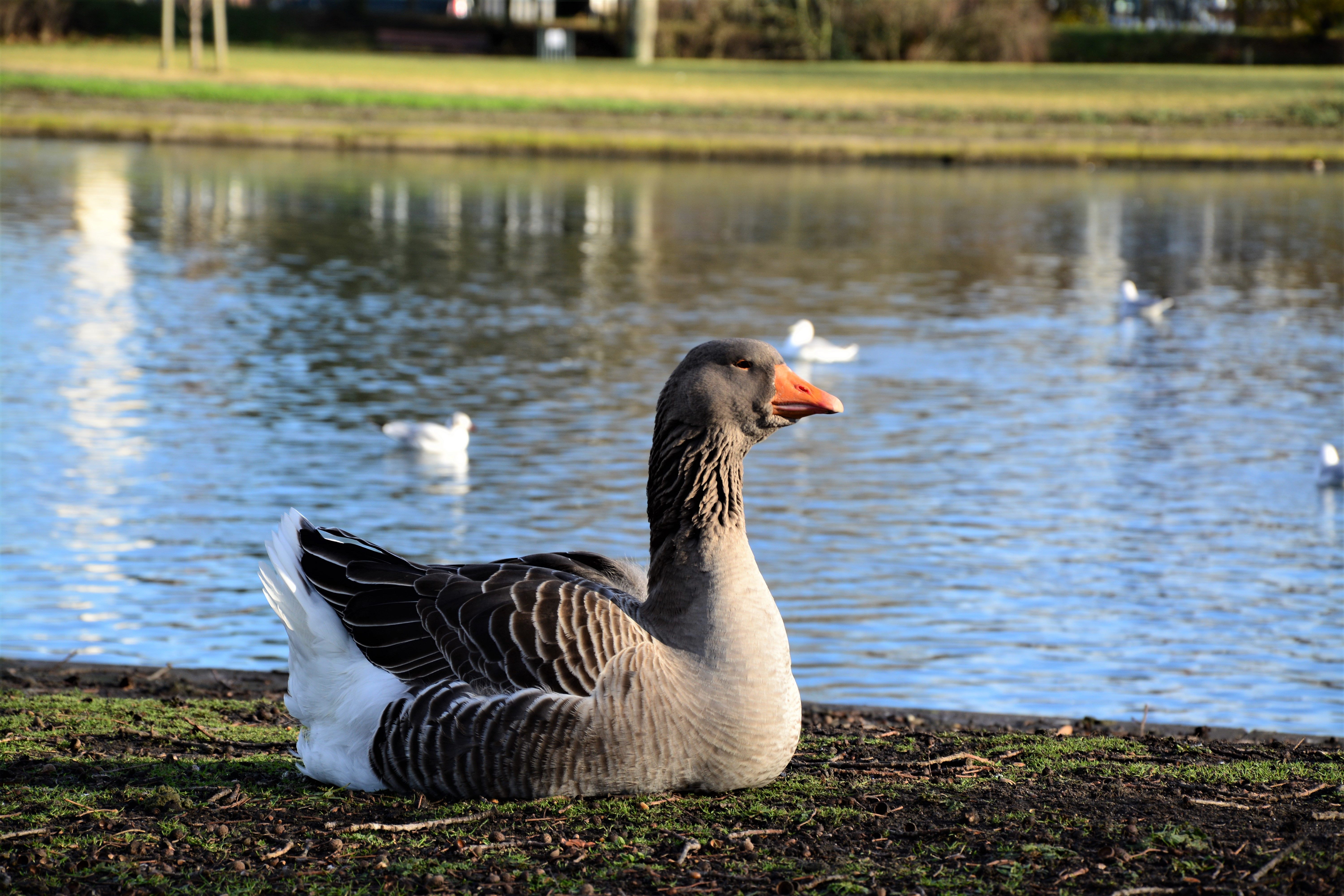 South Park, Greylag Goose resting near the lake